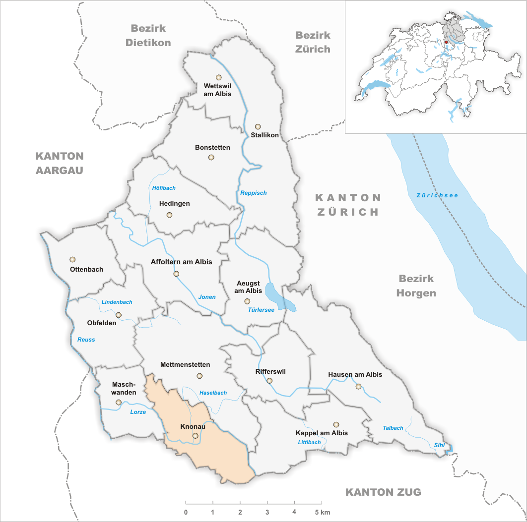 Municipality Knonau